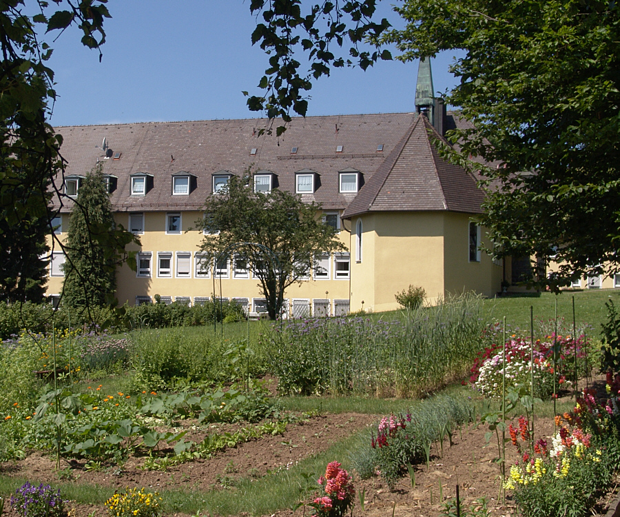 The convent Theresianum in Konnersreuth. In foreground the garden of the convent. Fotograf: Walter J. Pilsak, Waldsassen Copyright Status: GNU Freie Dokumentationslizenz